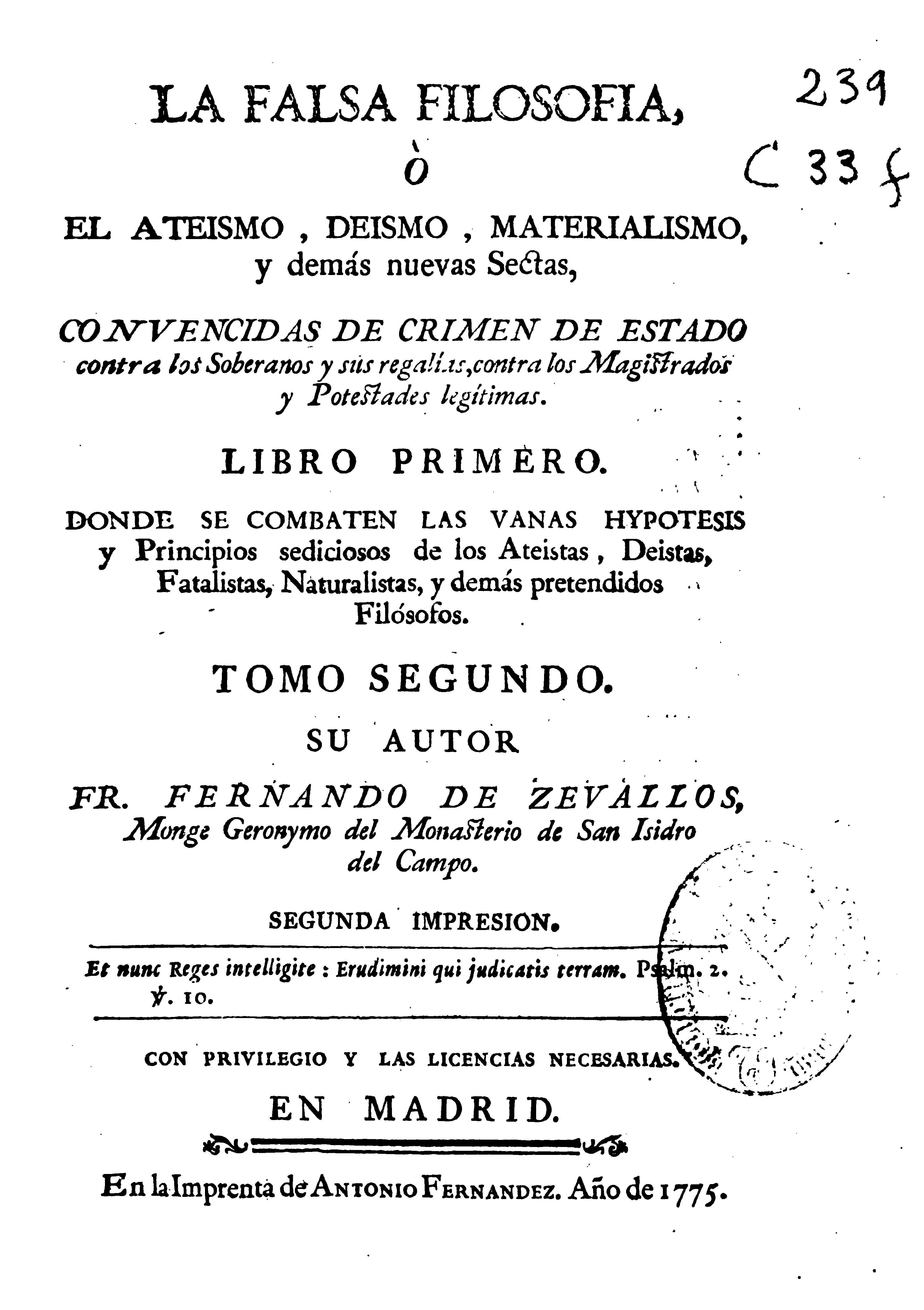 Fernando de Ceballos. La Falsa Filosofía, book cover.